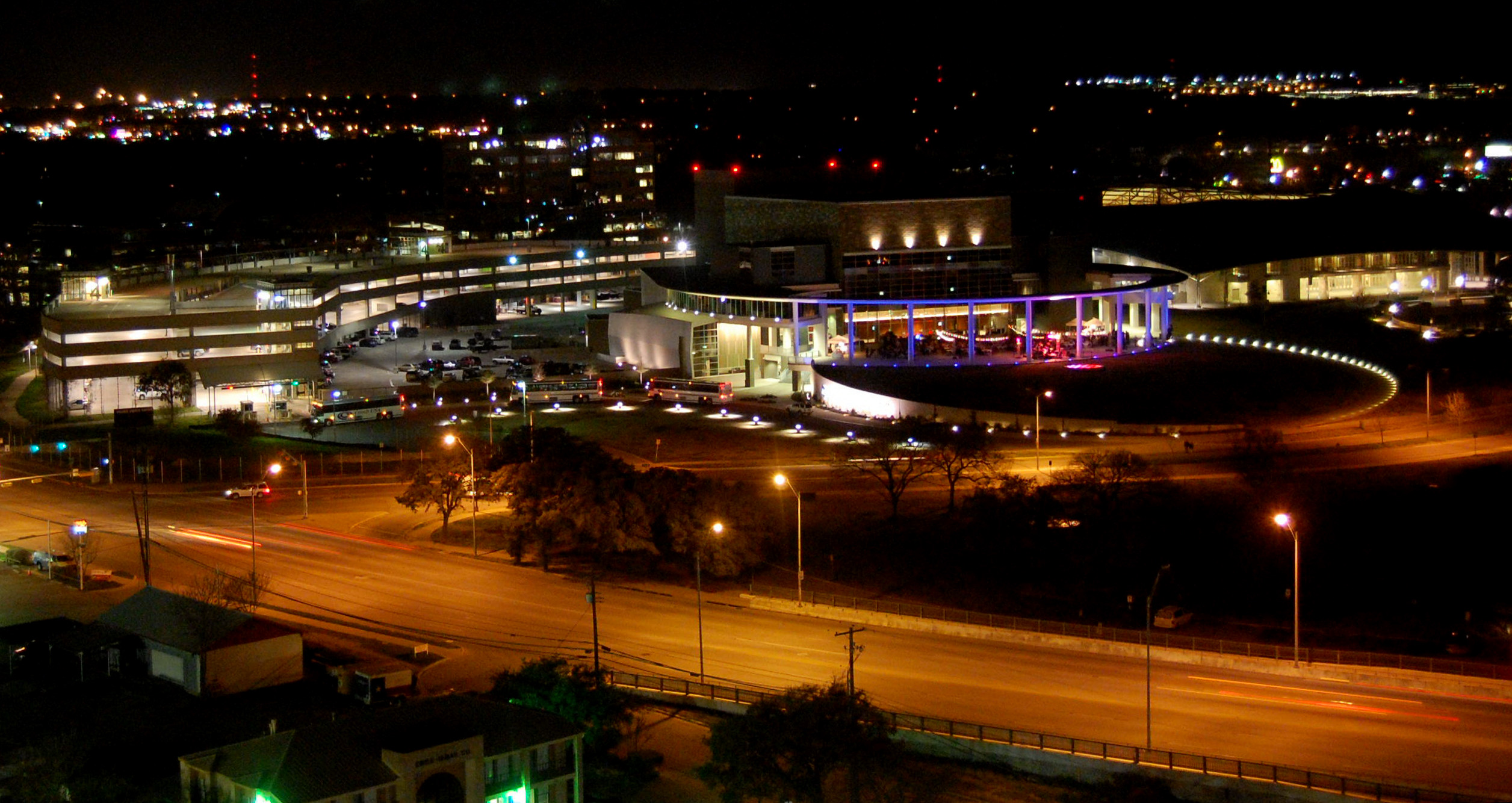 Aerial night view of the Long Center for the Performing Arts in Austin, Texas